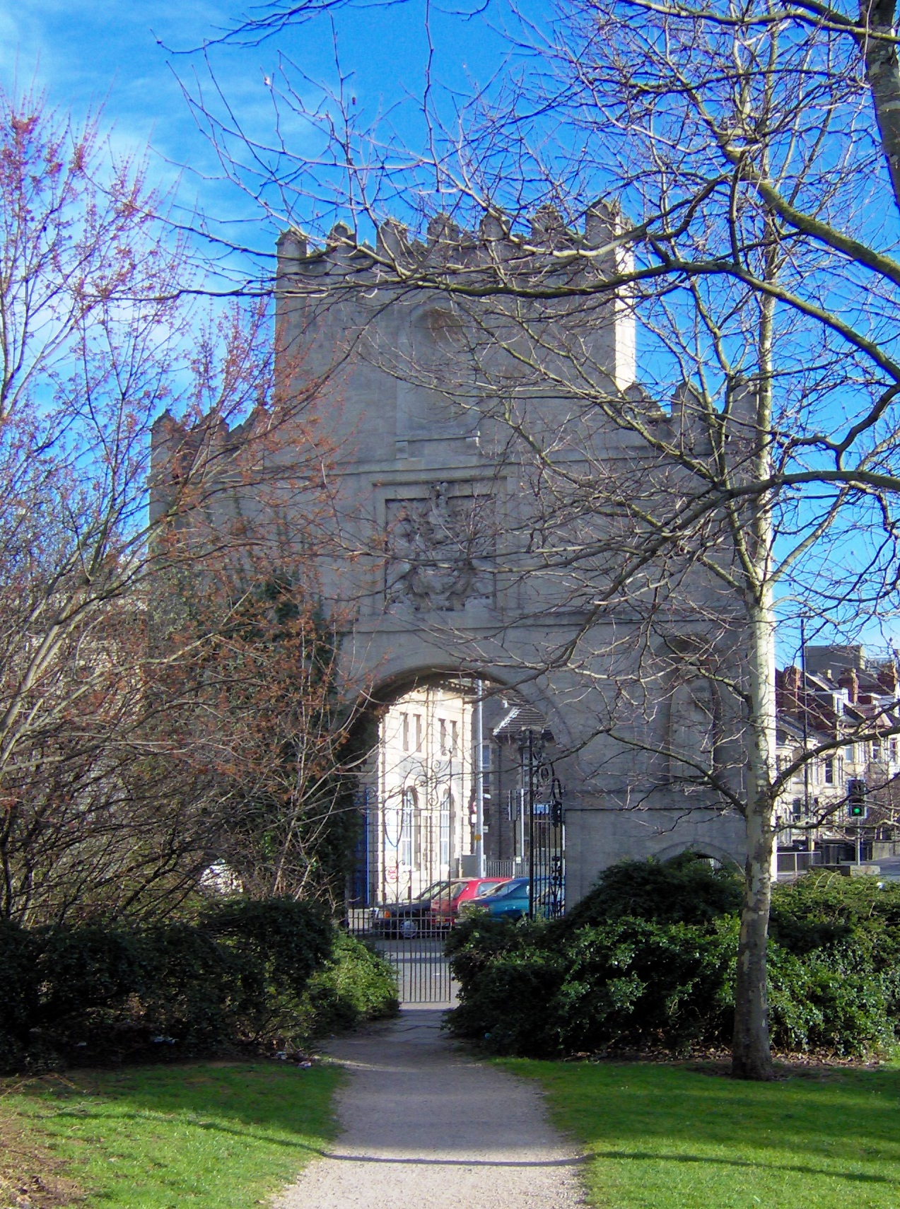 Arno's Court Triumphal Arch, Brislngton, Bristol. Taken by Rod Ward 19th March 2007